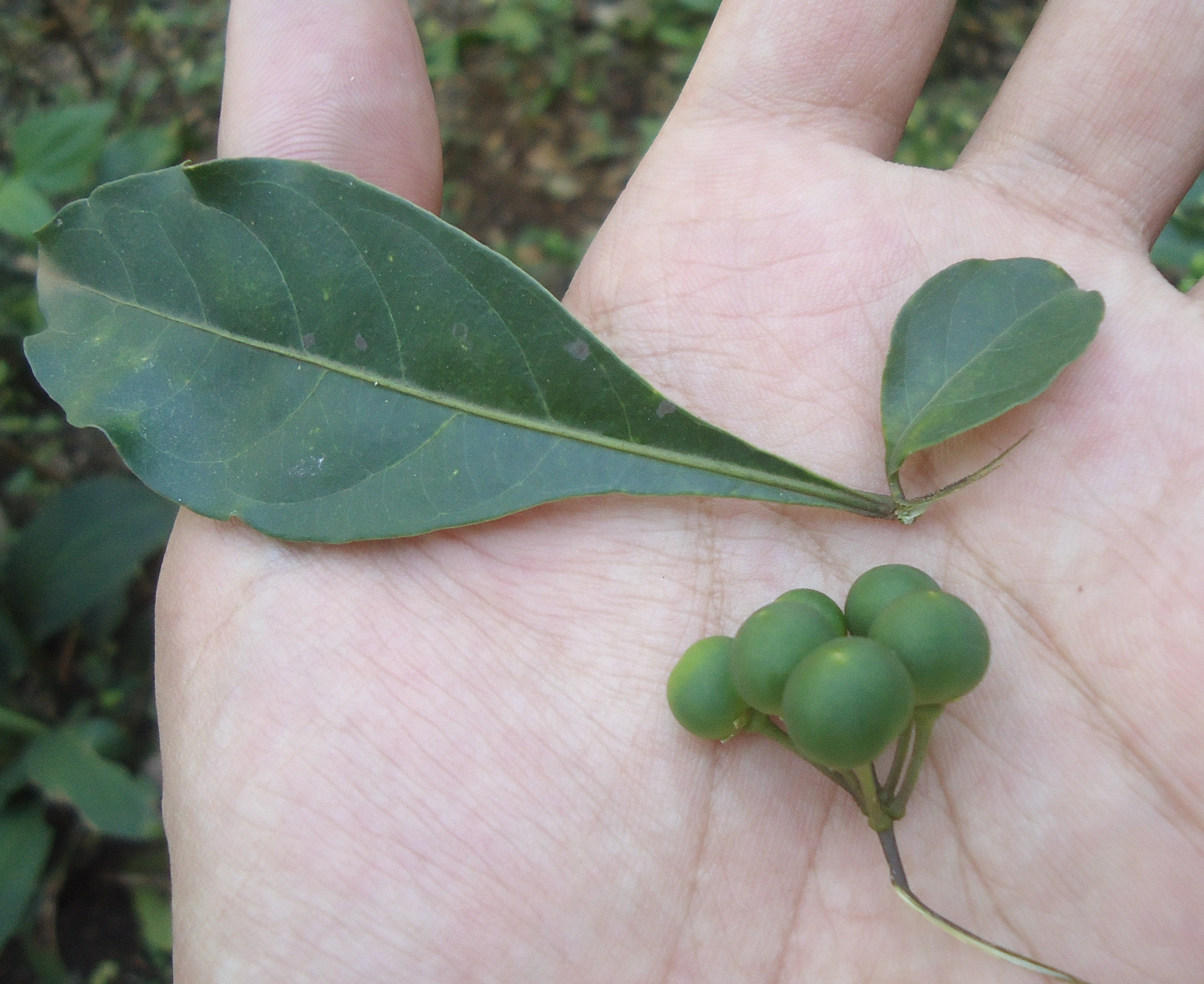 Twoleaf nightshade (Solanum diphyllum) unripe berries and leaves relative to human hand. Note the leaf pair, it's composed of a major and minor leaf hence the common names of the plant (twoleaf nightshade, twinleaf nightshade, etc.) and it's binomial ("diphyllum", which literally means "two leaf").